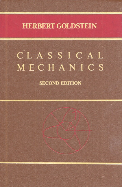 Bounded but non-closed orbit.